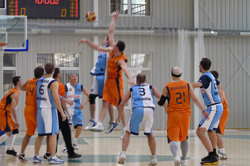 BC „Radviliškis“ playing ČLKL match against Chicago „Radviliškis“.